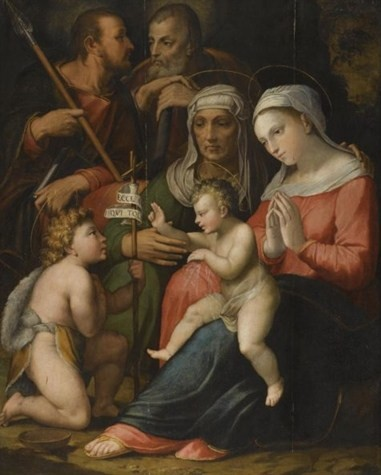 The Holy Family with St. Anne and John the Baptist